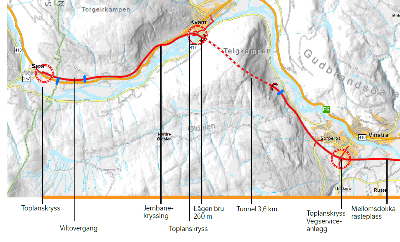 New E6 at Kvam, map.